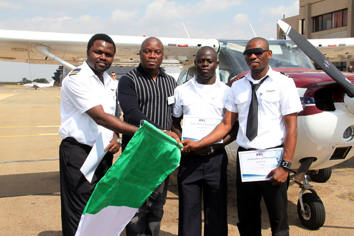 picture of kuku with ex-agitators